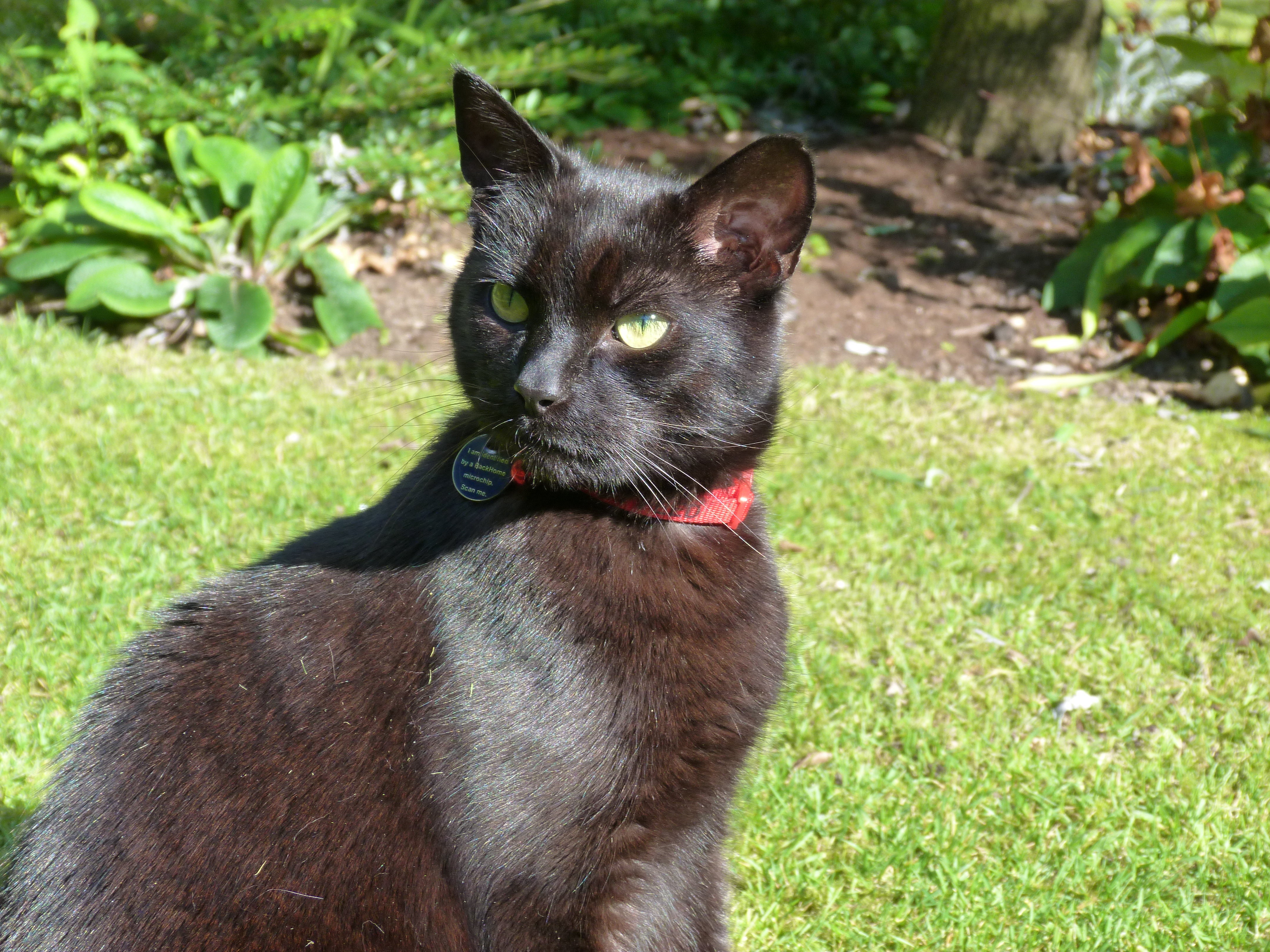 Cat with microchip implant information on its collar. Tag reads "I am identified by a BackHome microchip. Scan me."